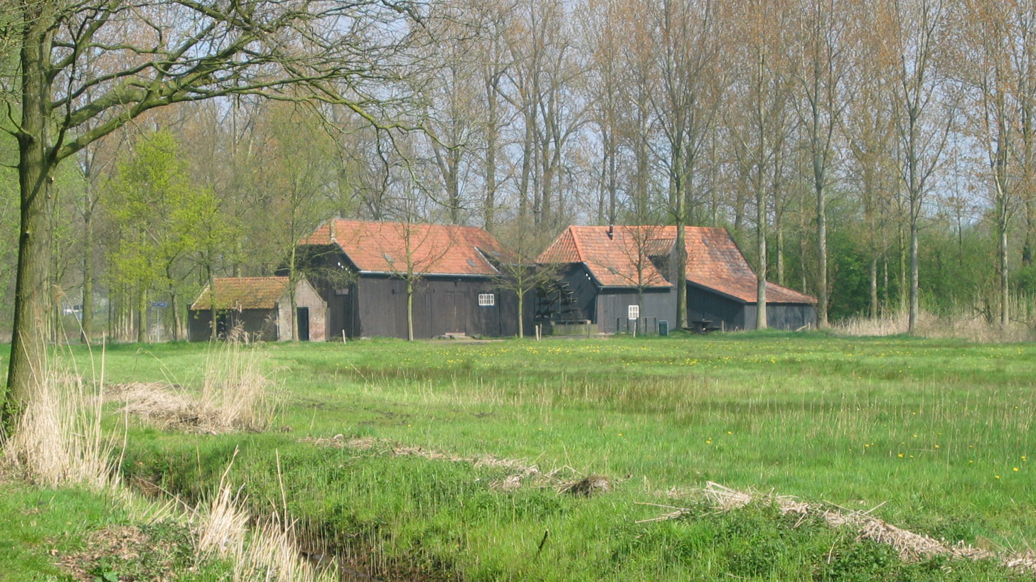 Coll watermill, Eindhoven, Holland